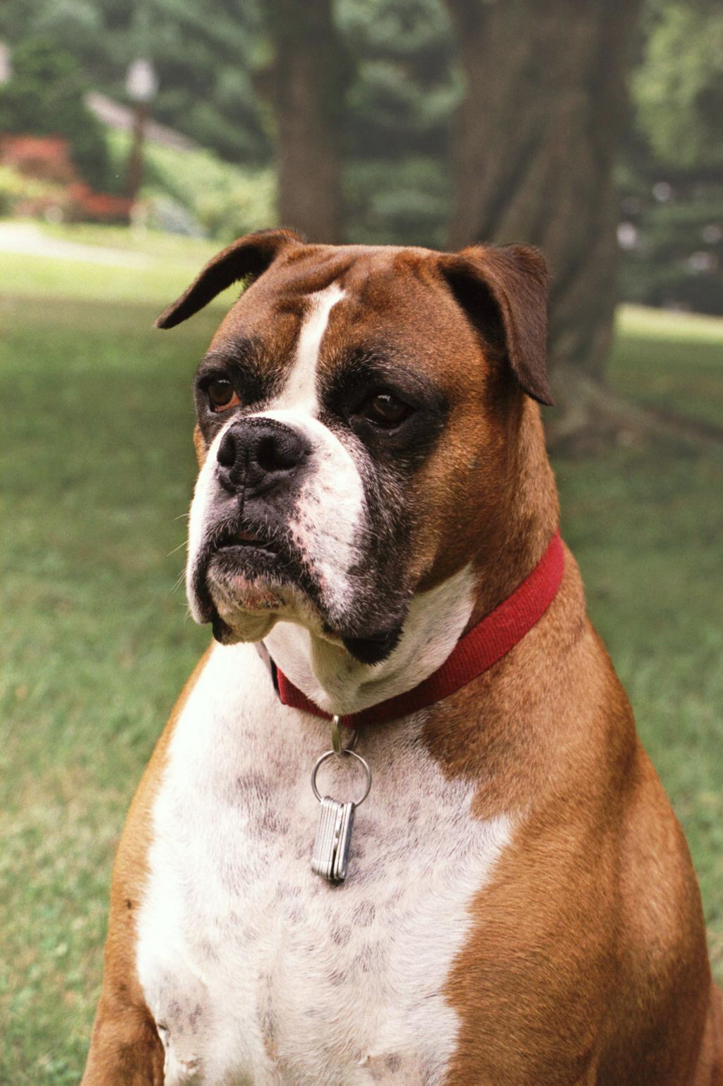 Tasha, the Boxer dog used for the Canine Genome Project